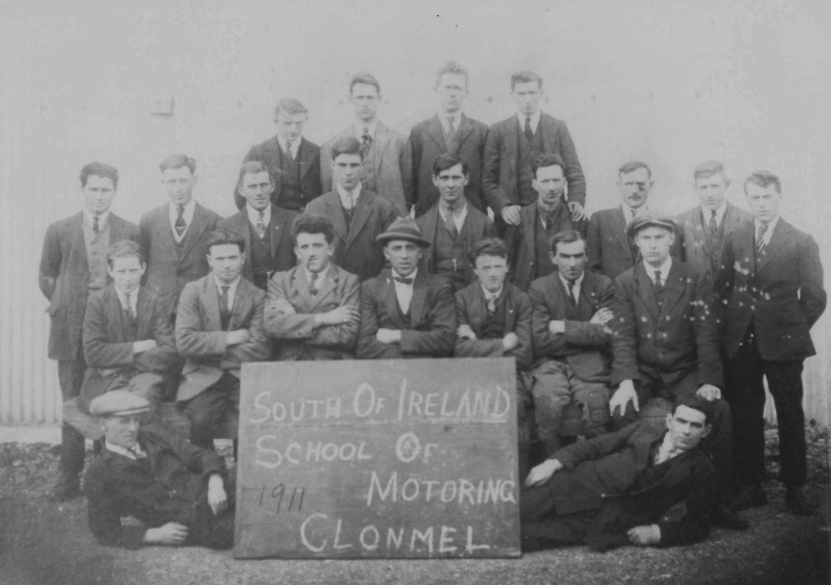 South of Ireland School of Motoring, Clonmel - held at O'Gorman's factory. Taken in late 1920s or early 30s